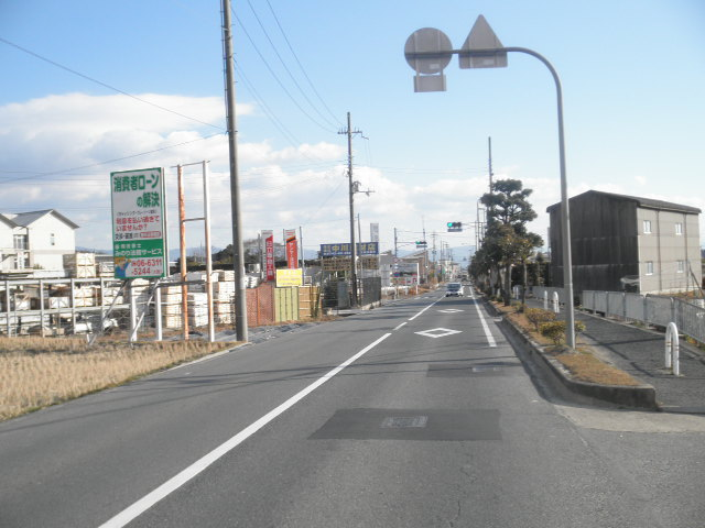 Akishinotown Naracity Narapref Naraprefectural and Kyotoprefectural road 52 Nara Seika Line.JPG